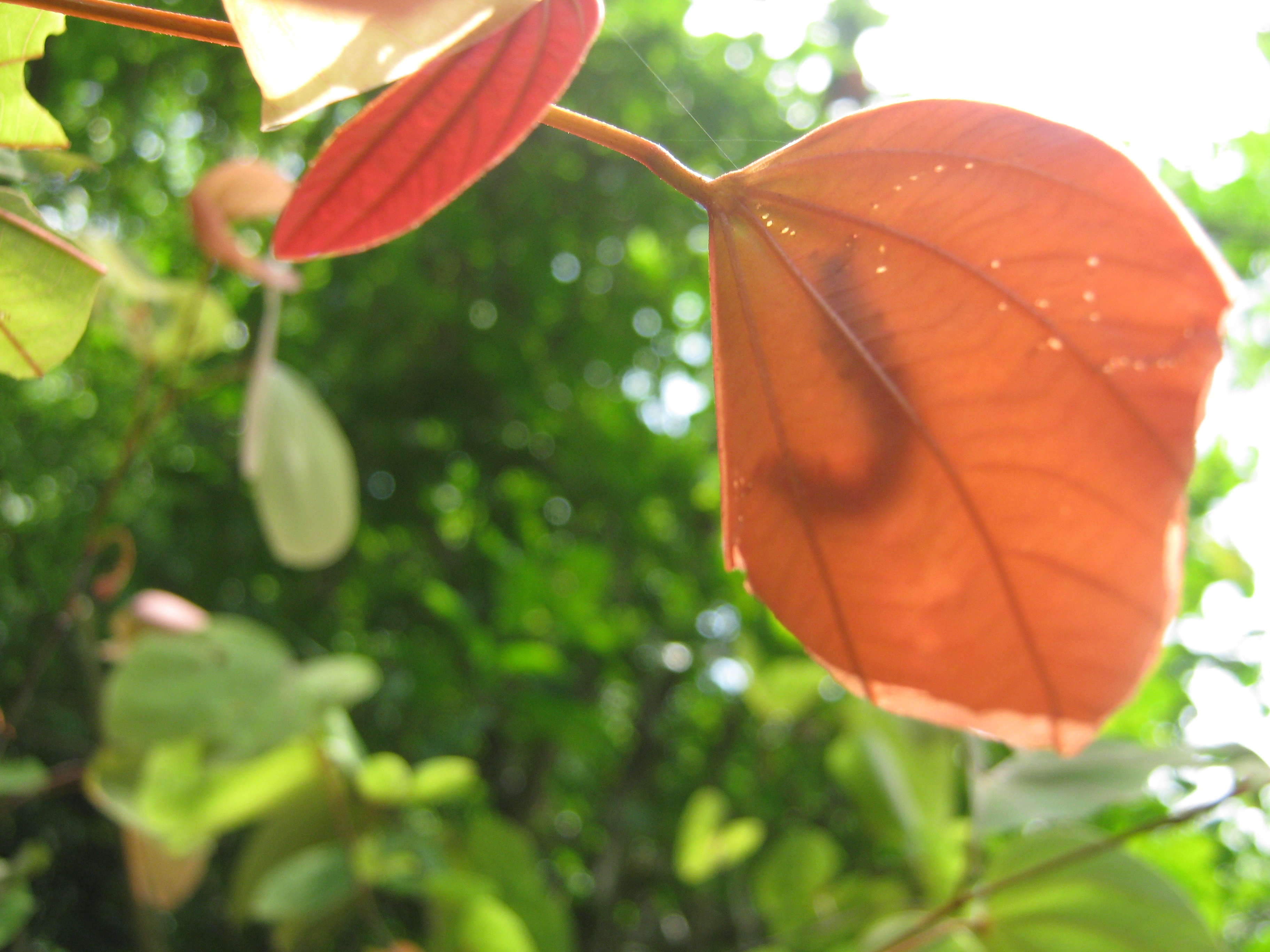 A insect